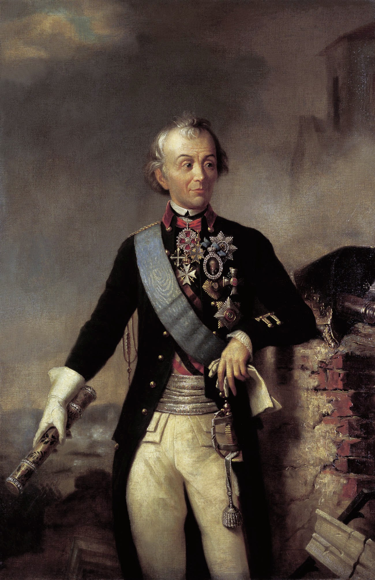 Alexander Vasilievich Suvorov (1730-1800), Russian generalissimo, count and prince. Suvorov is depicted in his uniform of the Preobrazhensky Regiment worn during the reign of Paul I of Russia. Awards on the portrait are as follows (from left to right and from top to bottom): Order of St. Anna (awarded September 30, 1770) portrait of the Emperor Paul I of Russia Star of the Order of St. Andrew the First-Called (awarded September 9, 1787) Order of Saints Maurice and Lazarus Badge of the Order of the Black Eagle Star of the Order of St. George, 1st class (awarded October 18, 1789) Grand Cross of the Order of St. John of Jerusalem (awarded February 9, 1799) portrait of Francis II, Holy Roman Emperor Order of Maria Theresa Star of the Order of St. Vladimir, 1st Class (awarded July 28, 1783) The blue sash stretching from the right shoulder to waist is that of the Order of St. Andrew the First-Called. Under the blue sash, the orange sash with three black stripes of the Order of St. George is visible.